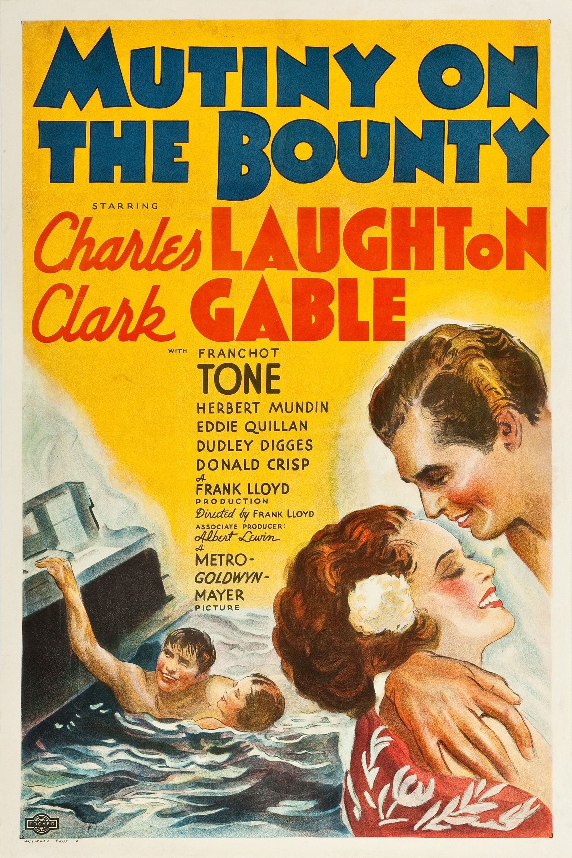 Poster for the 1935 film Mutiny on the Bounty. The item has no copyright markings on it as can be seen in the links above. At bottom left is "D"-poster version D, made in USA, #6935, and a logo for Tooker Litho Co., NY-they printed the poster.